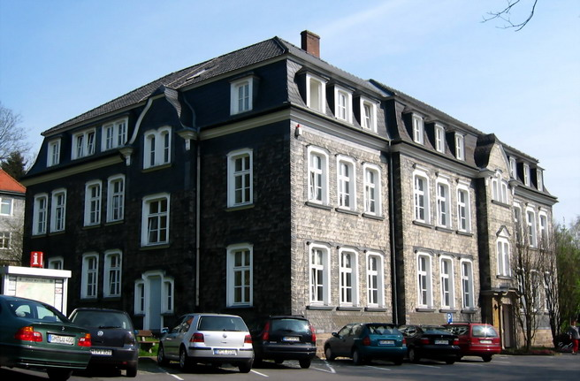 Waldbröl - Guildhall - Waldbröl - Rathaus Author mrfinch Time of creation 16 04 2005 Licence GNU FDL and CC-by-SA Camera Canon S 45